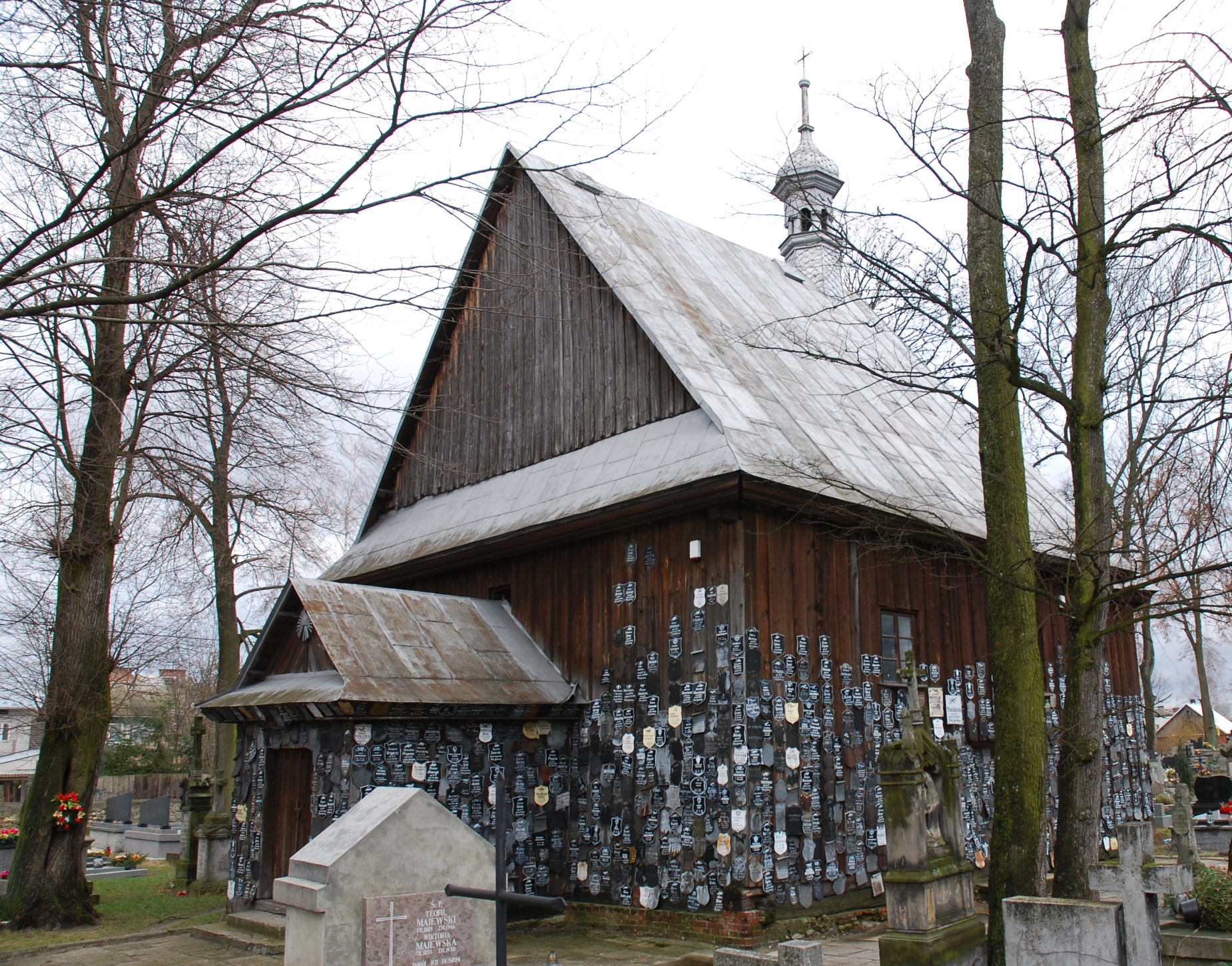 Wooden church in Zaklików, from the XVI-th century. On the walls are observable the tables with names of dead citizens. That local tradition was started in XIX century.